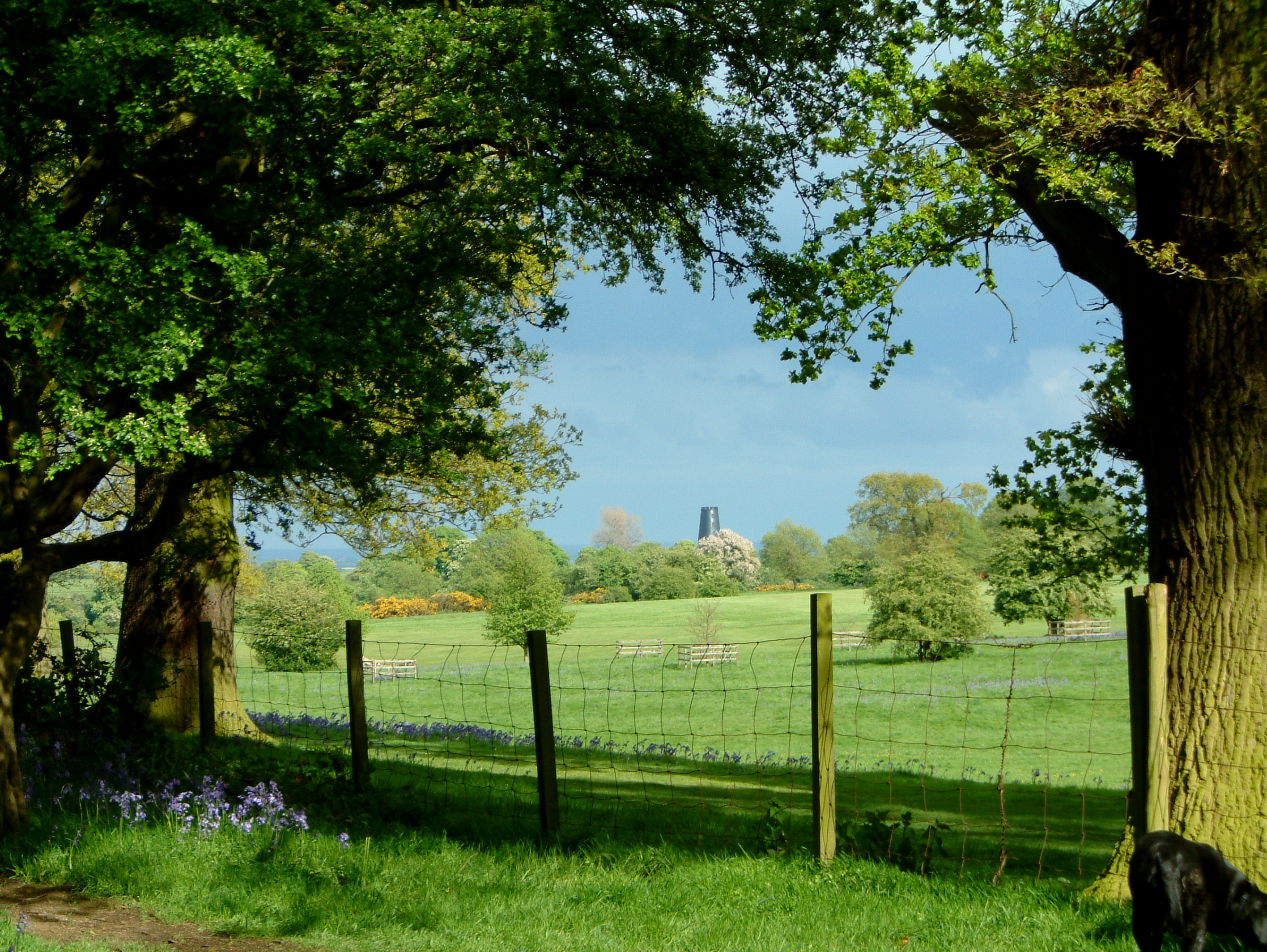 Beverley Westwood showing The Black Mill, Beverley, East Riding of Yorkshire, England. I am the copyright holder of this photo